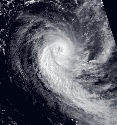 Image of Tropical Cyclone Chambo of the 2004-05 South-West Indian Ocean cyclone season on 26 December 2004